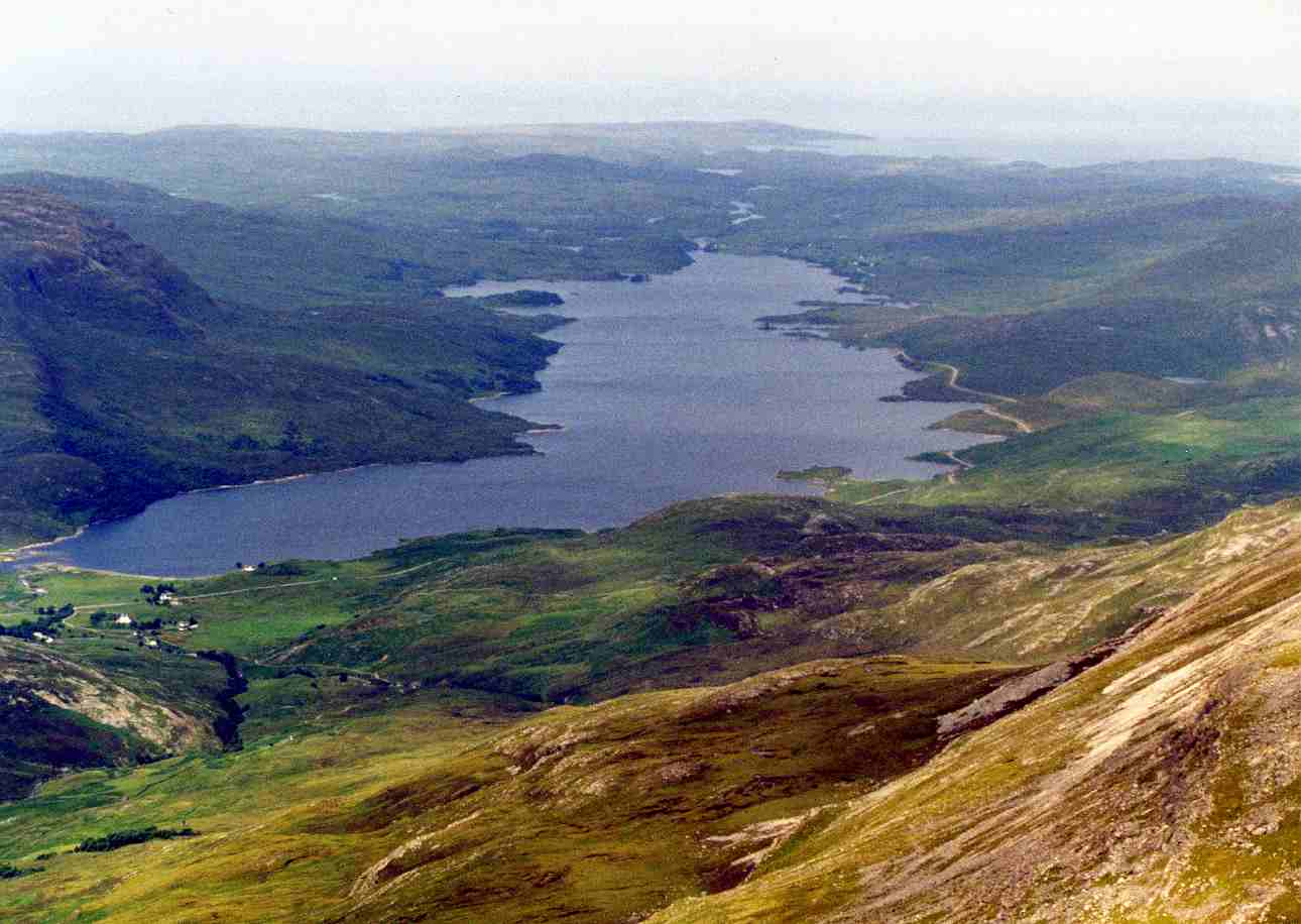 Personal picture taken by Mick Knapton